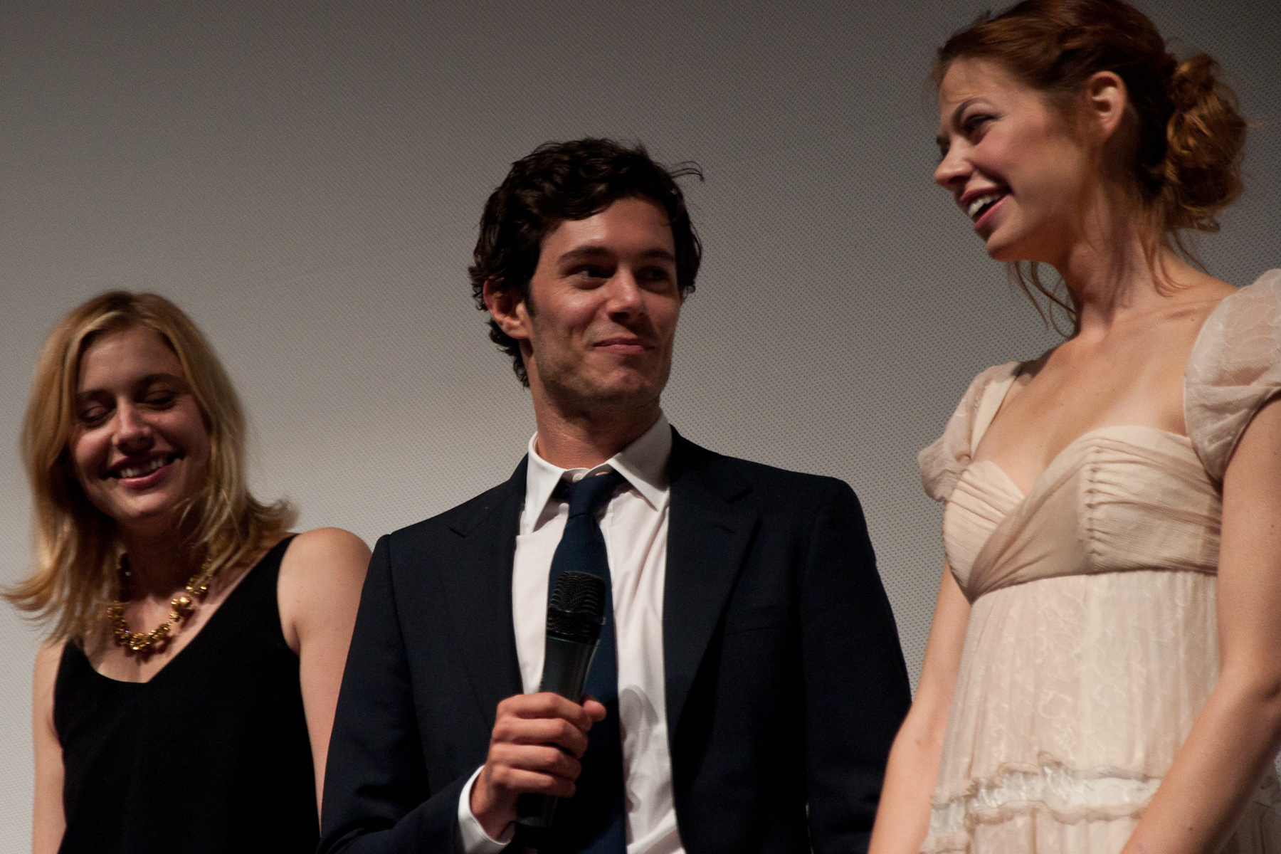 Greta Gerwig, Adam Brody and Analeigh Tipton at the 2011 Toronto International Film Festival